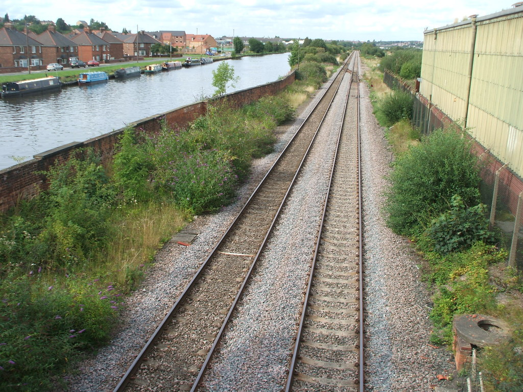 Kilnhurst Central railway station (site), YorkshireOpened in 1871 by the Manchester Sheffield & Lincolnshire Railway on the line from Sheffield Victoria to Doncaster, this station closed in 1968. View north towards Mexborough and Doncaster. The line is still in use for freight and occasional diversions. The modern building to the right is roughly on the site of the main station building.